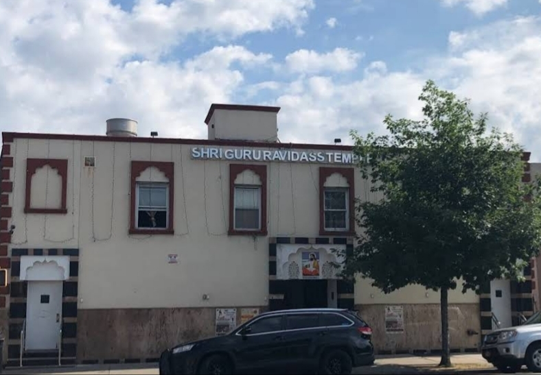 Gurdwara Guru Ravidass Temple, New York